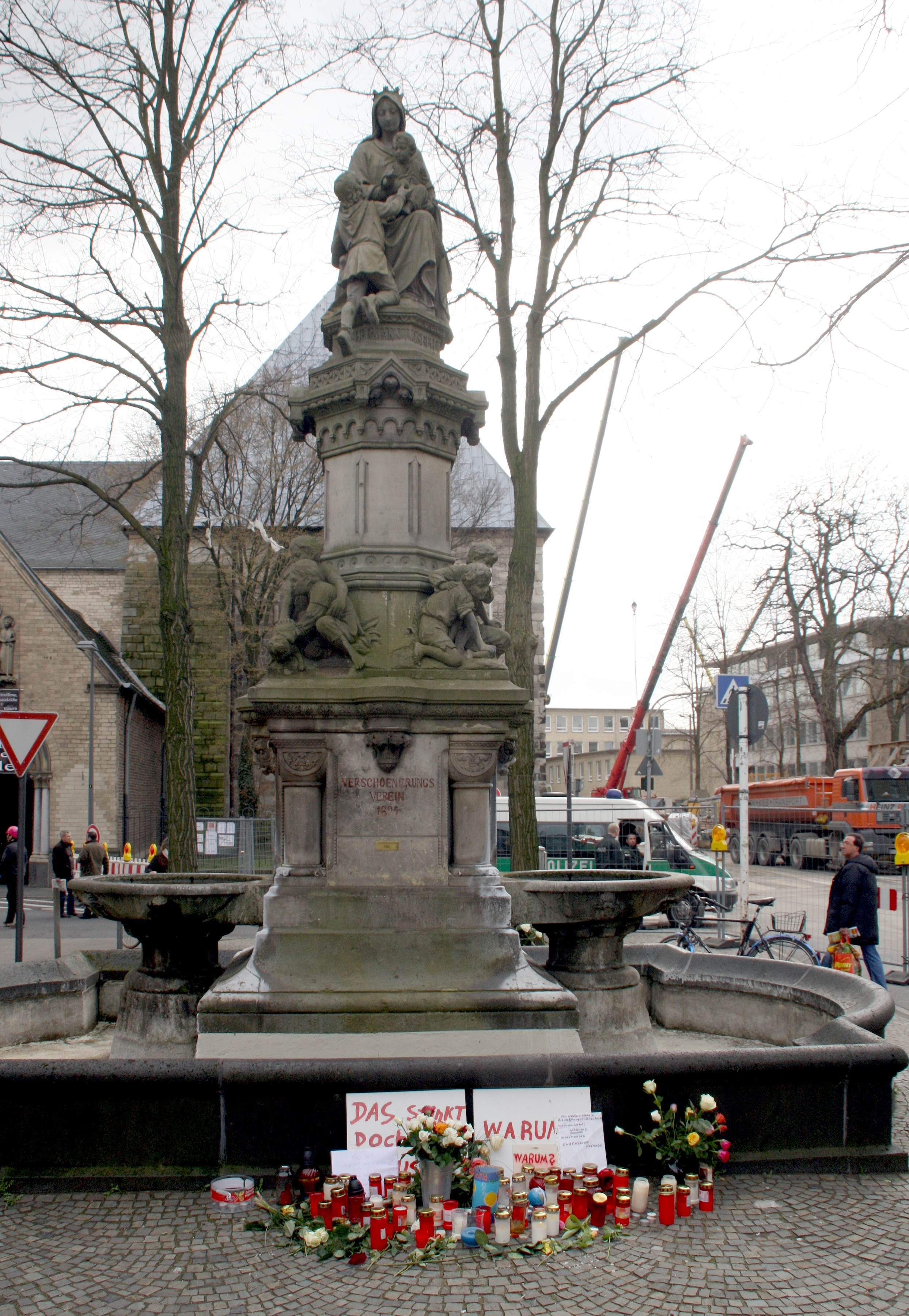 Rescue operations after the collaps of the historical city archives of Cologne. Flowers and candles on the Waidmarkt in remembrance of the victims of the collaps.